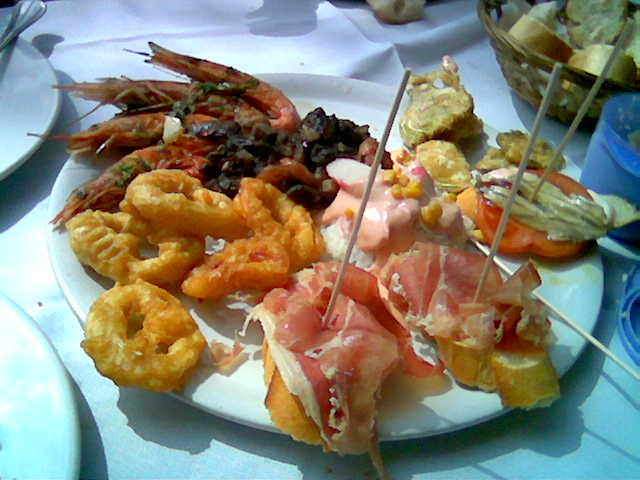 Mmm! Feeling hungry? fried squid, shrimps, jamon